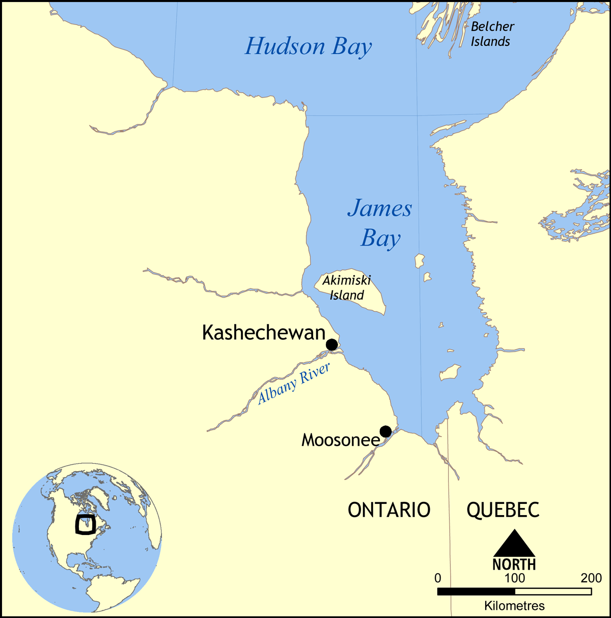 Map showing the location of Kashechewan, a community on Albany River near James Bay in northern Ontario, Canada.